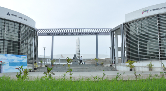 The entrance to Great Lakes Institute of Management, Chennai campus